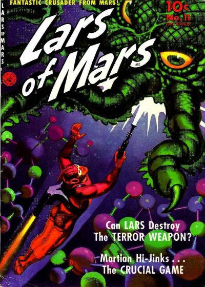 Lars of Mars #11 (July-August 1951), Ziff Davis